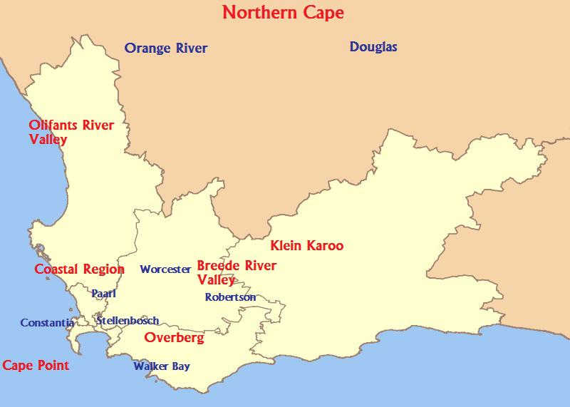 Map of the general locations of South African wine regions. Derived from File:Western Cape urban education districts.svg.